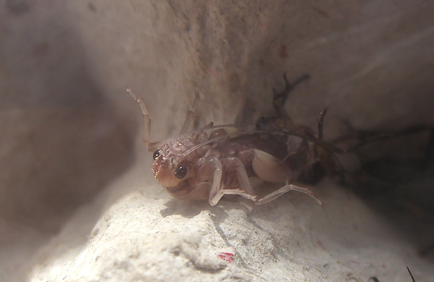 Description: Gryllus bimaculatus' during ecdysis